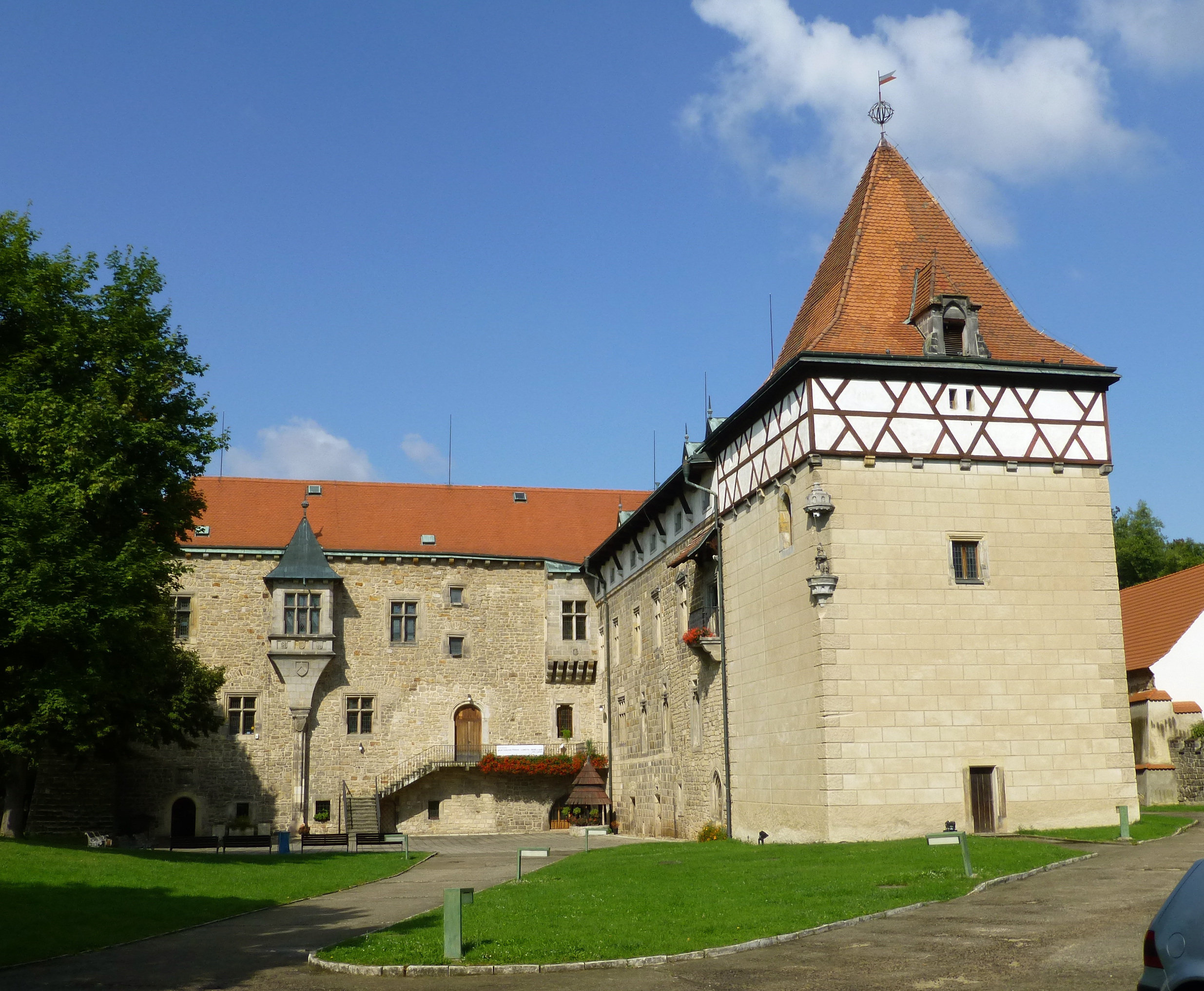 Castle at Budyne nad Ohri (Litomerice District), Czech Republic.